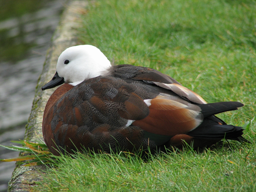 Tadorna variegata, Paradise Shellduck, Pūtangitangi. Native to New Zealand. Female (white head, chestnut body) at the Karori Wildlife Sanctuary, Wellington New Zealand. (See also Karori Wildlife Sanctuary). This pair seem to follow the same daily habit - the morning is spent at the lower dam, and the afternoon in the inlets near the bird hides at the upper dam. Canon S2 with a Sony VCL-DH1758 1.7x tele conversion lens coupled via a Lensmate 58mm adaptor. No post-processing except for reduction to 1024x768 with a little USM.